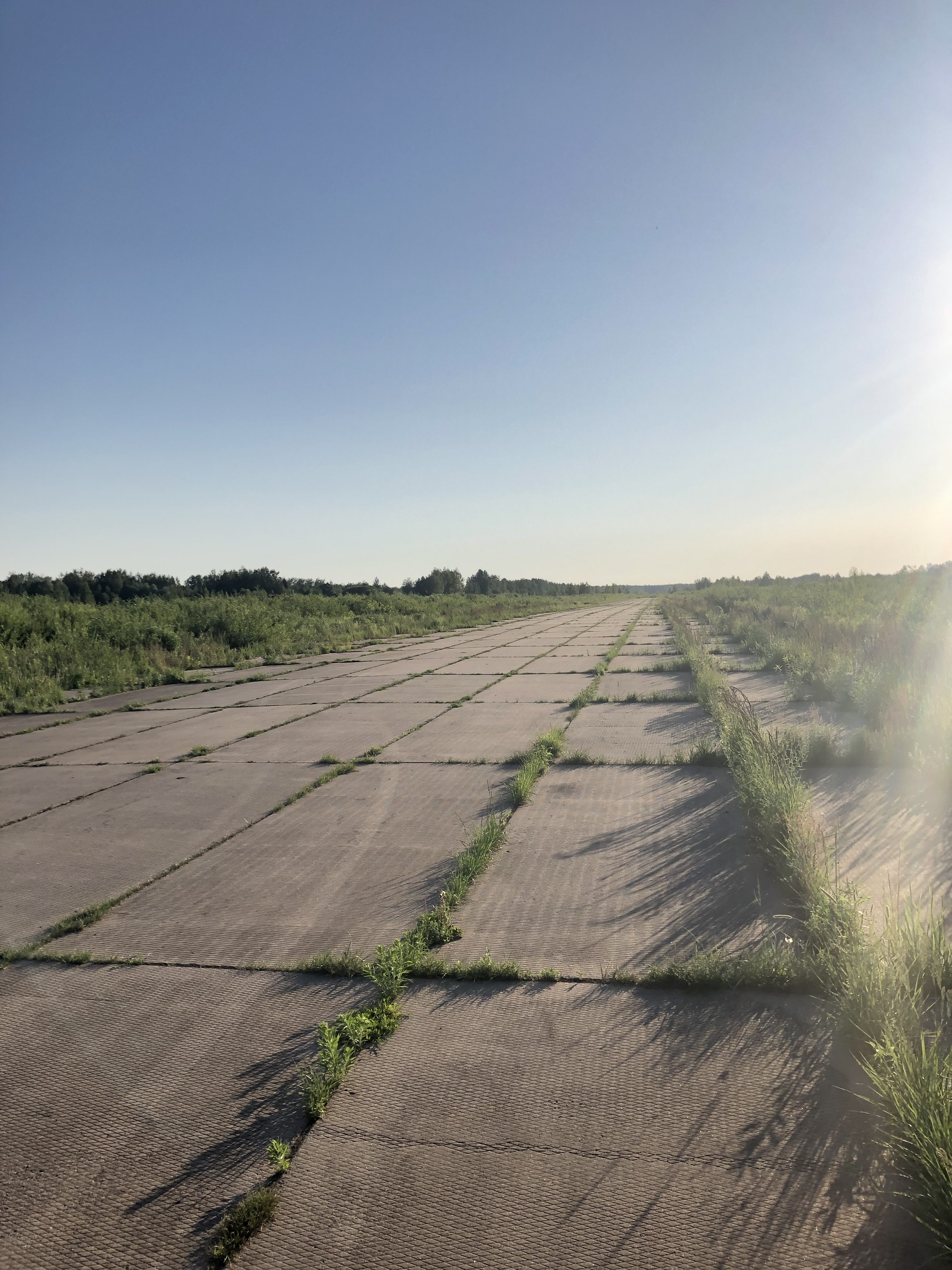 former Jelgava Airbase Runway